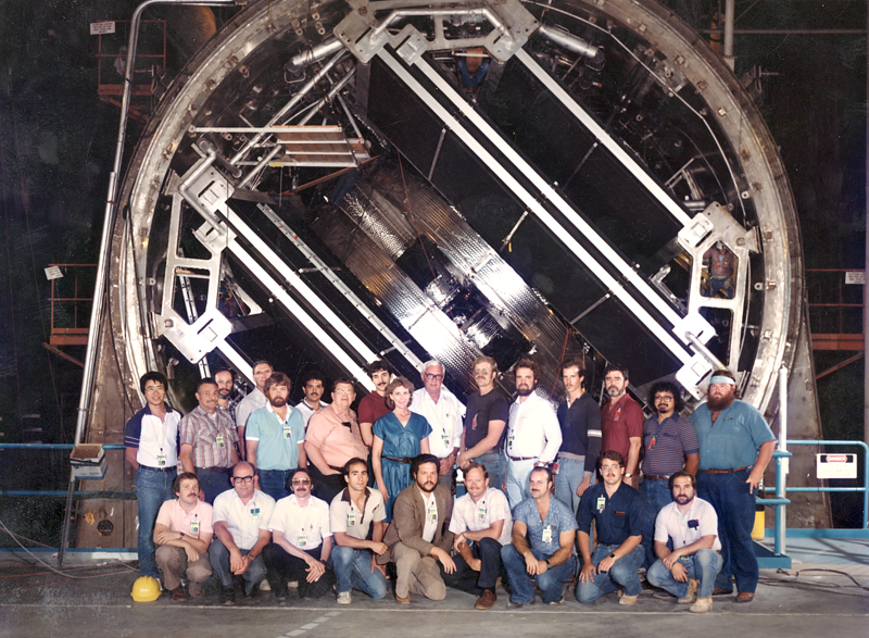 Yin Yang Magnet installed in the MFTF-B vessel